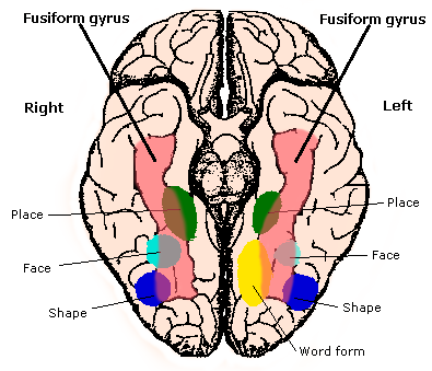 Human brain, inferior view. Some brain areas and fusiform gyrus (red) shown.